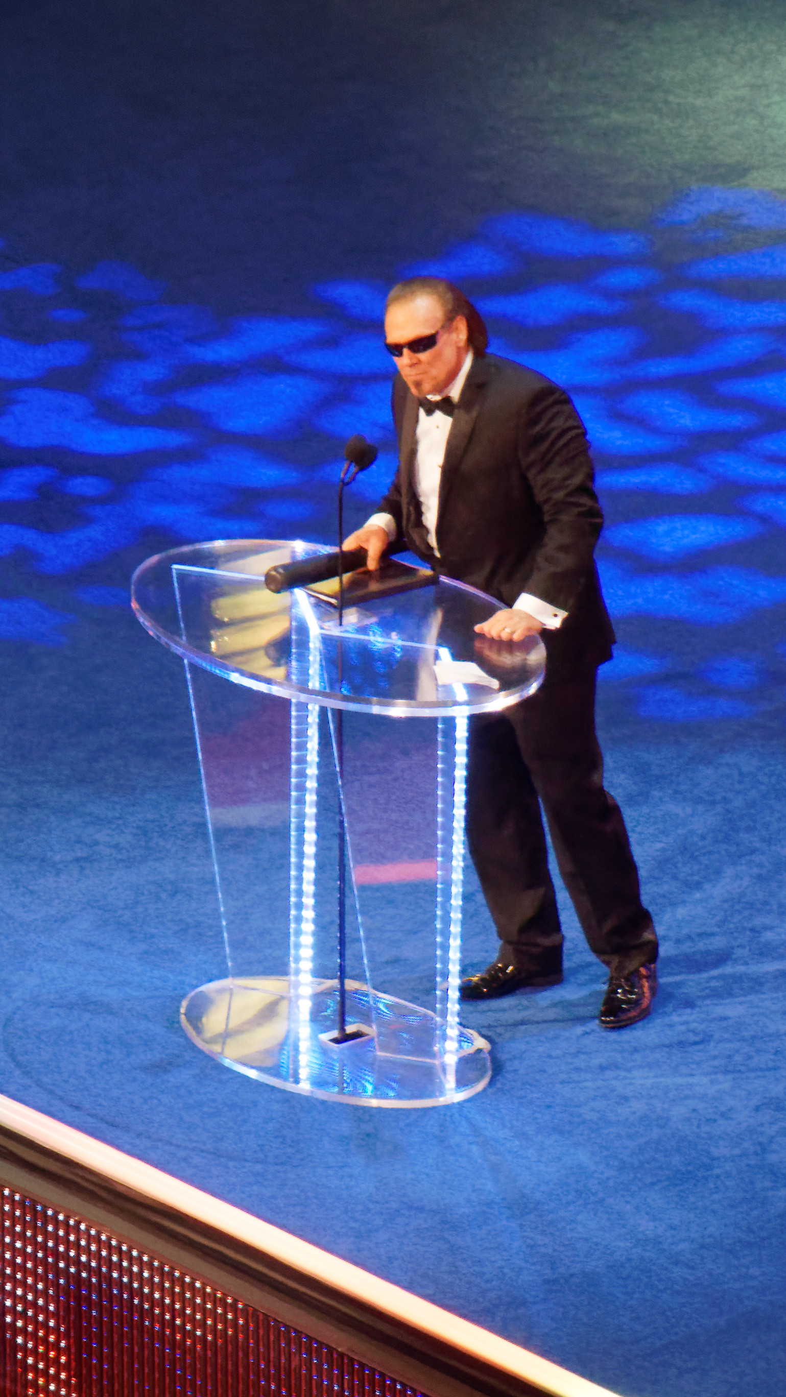 Sting inducted into the WWE Hall of Fame